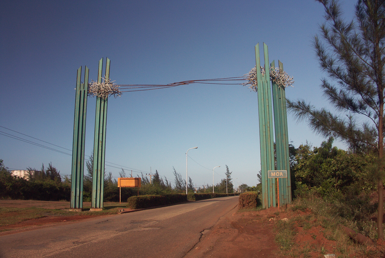 The city of Moa in Cuba in 2008.